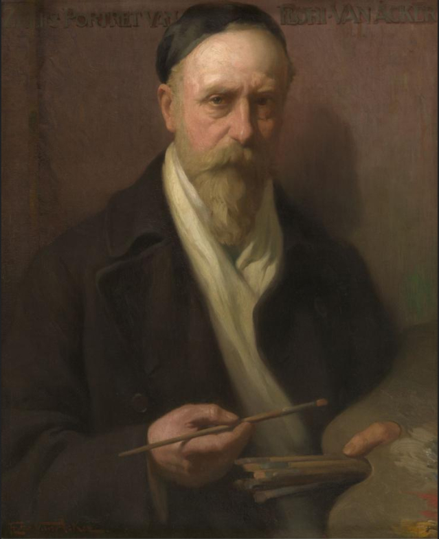 Zelfportret (Flori van Acker, circa 1858 - circa 1940); collection: Musea Brugge - Groeningemuseum